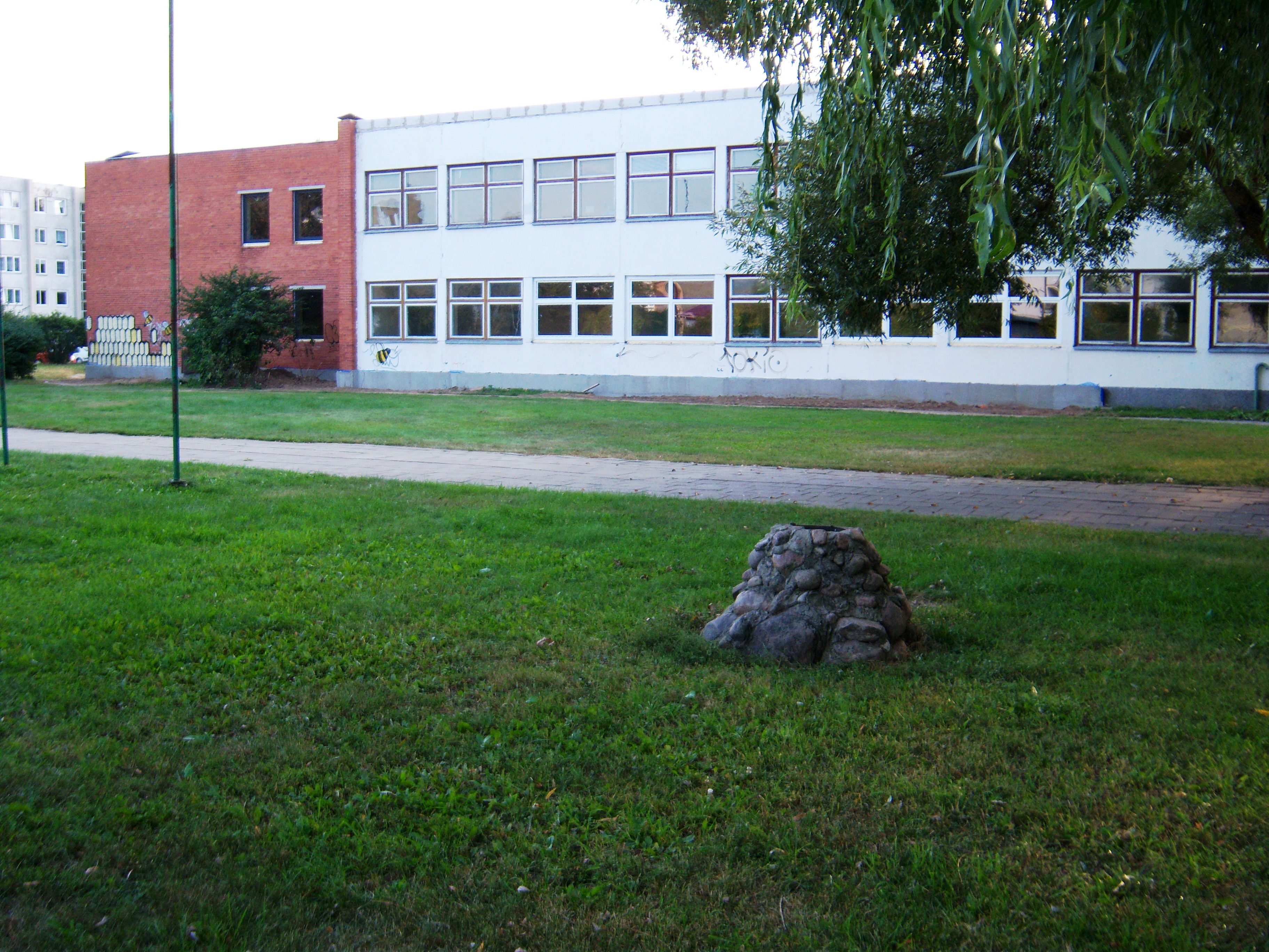 Gymnasium in Pagiriai, Vilnius District, Lithuania